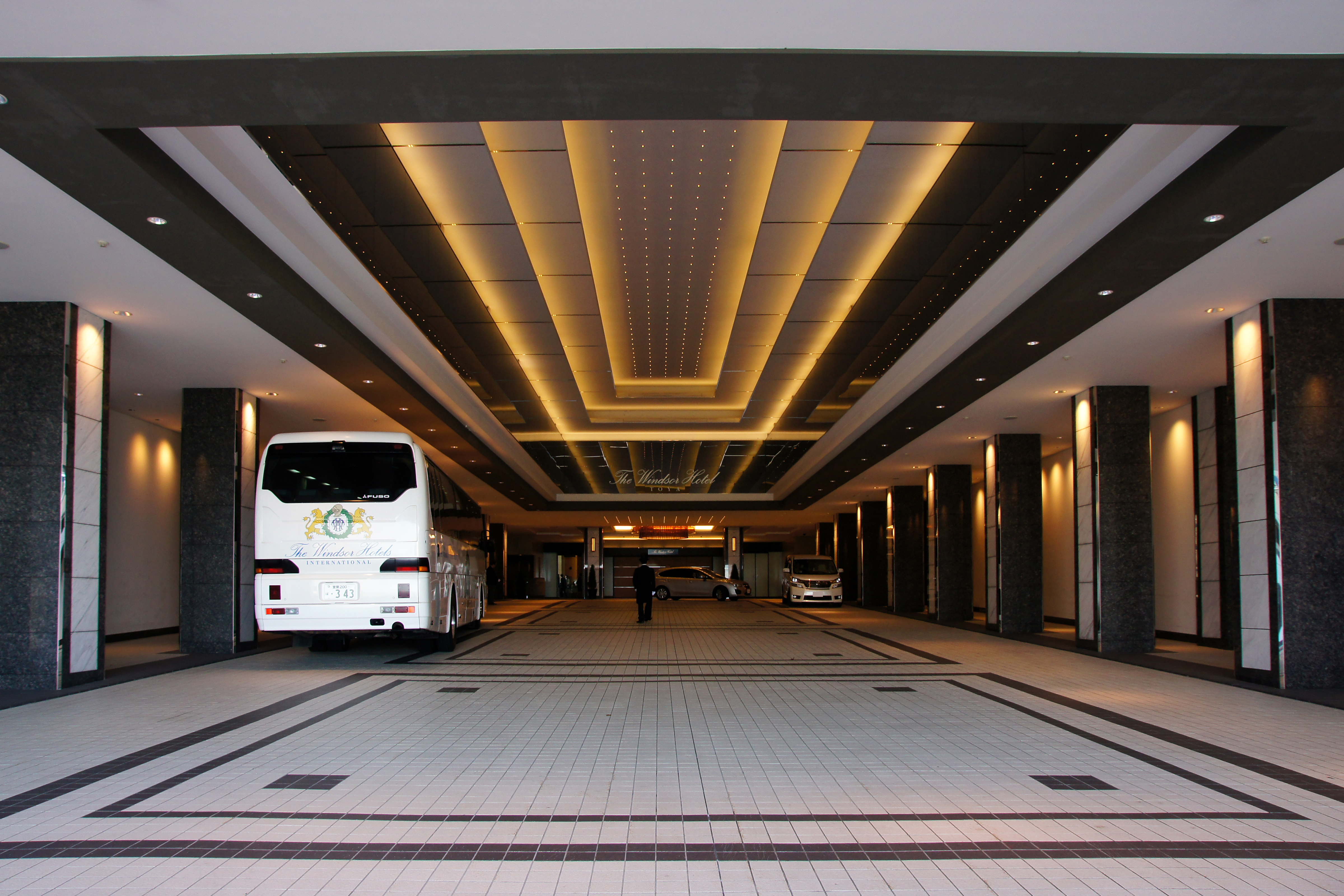 The Windsor Hotel Toya Resort & Spa in Toyako, Hokkaido prefecture, Japan.